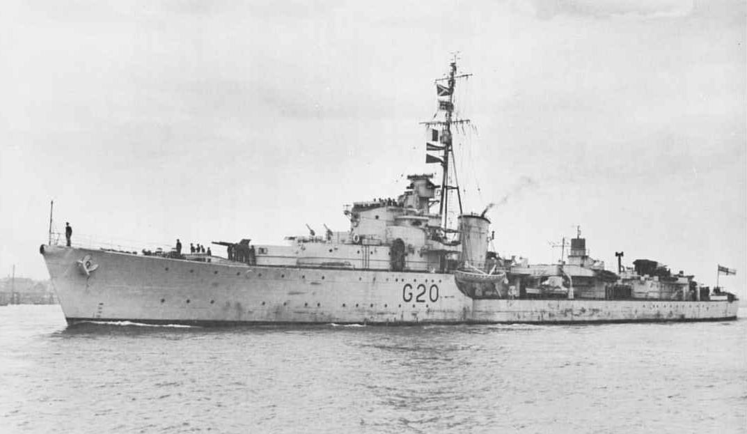 The Destroyer HMS Savage 1943